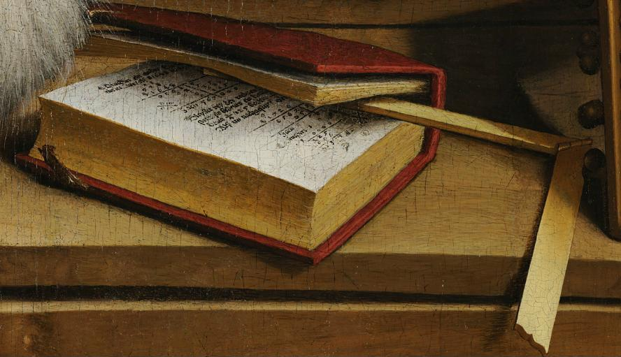 Holbein Ambassadeurs detail livre d'arithmétique